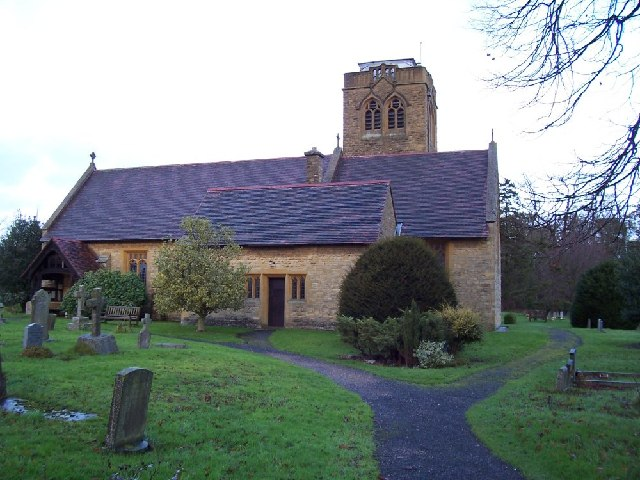 Parish church of the Holy Trinity and St Thomas of Canterbury, Ettington, Warwickshire: designed by C Ford Whitcomb and completed in 1903